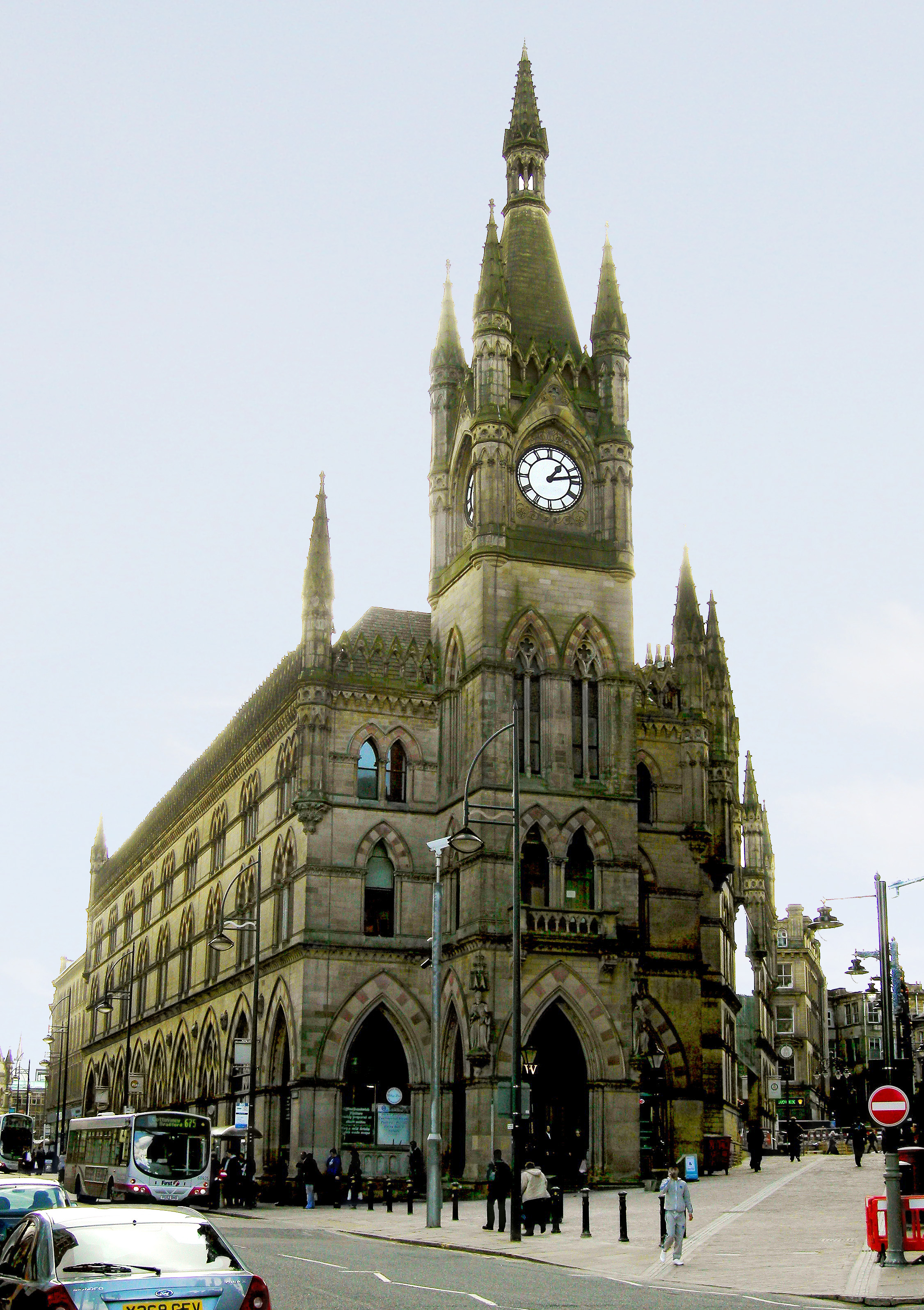 Wool Exchange, Bradford, West Yorkshire, England.